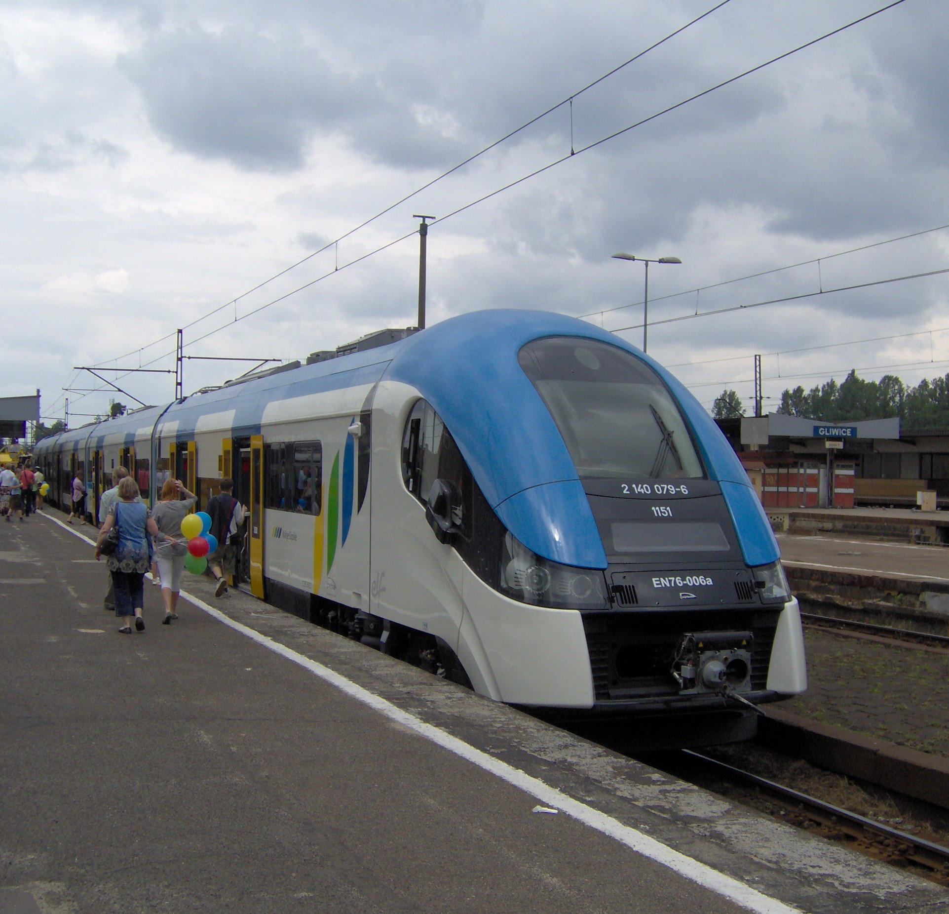 EN76-006 at rail technic days in Gliwice